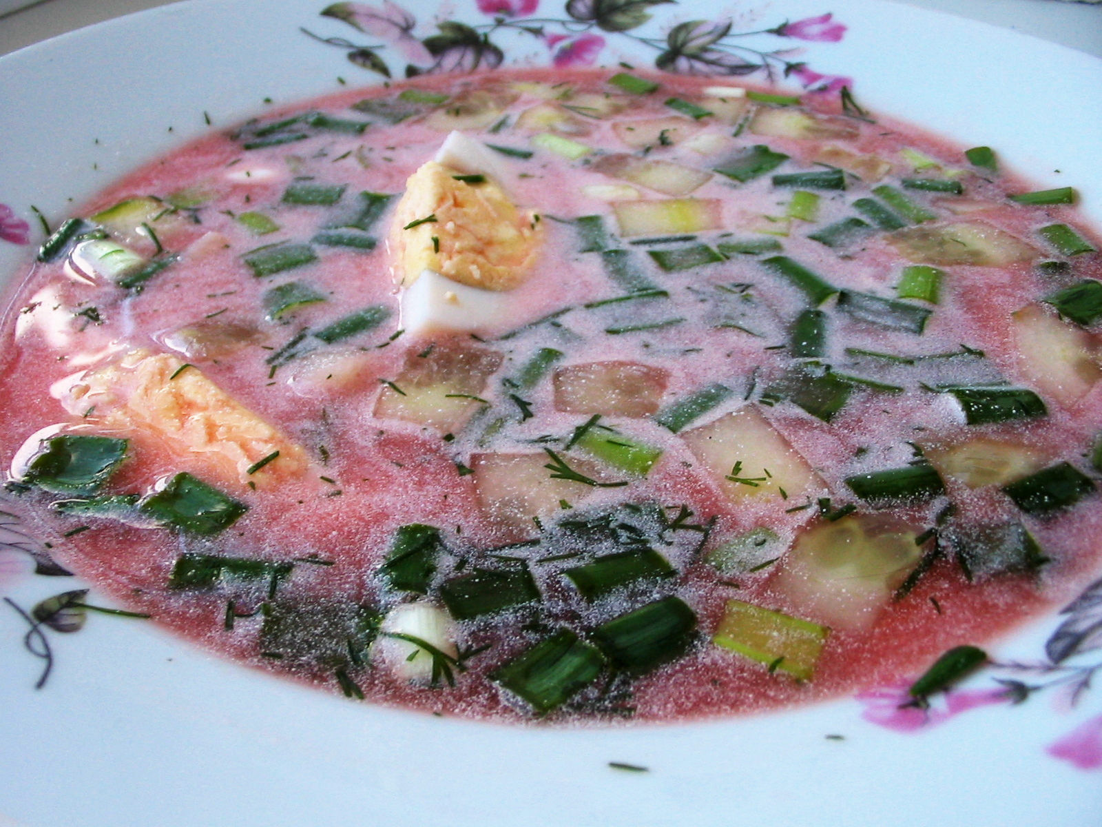 Cold borscht